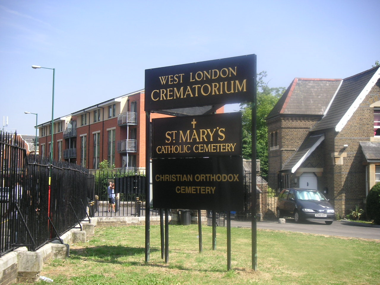 West London Crematorium